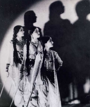 Screen shot from the film Amar Jyoti